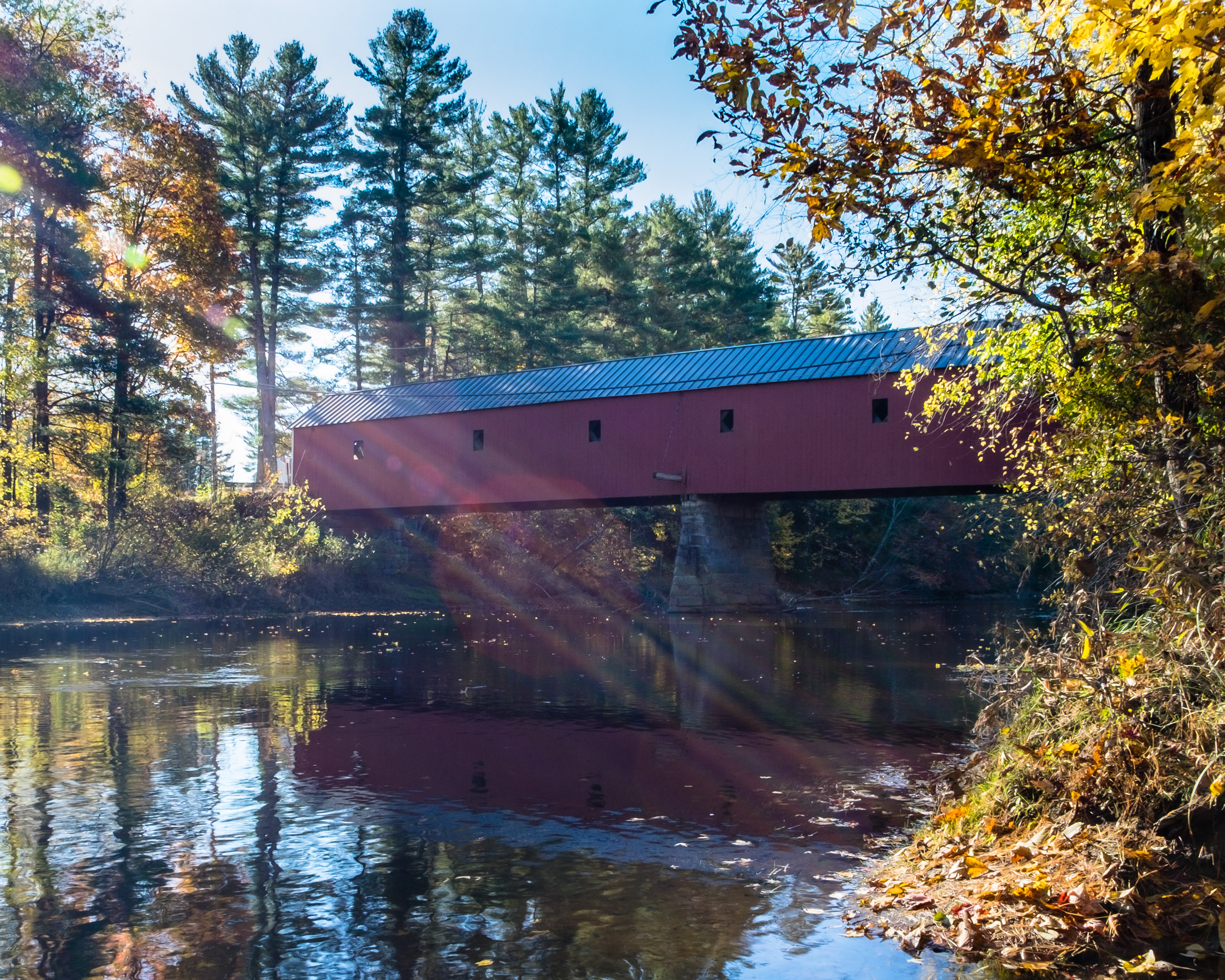 Cresson bridge over the Ashuelot River near Swanzey City, New Hampshire.